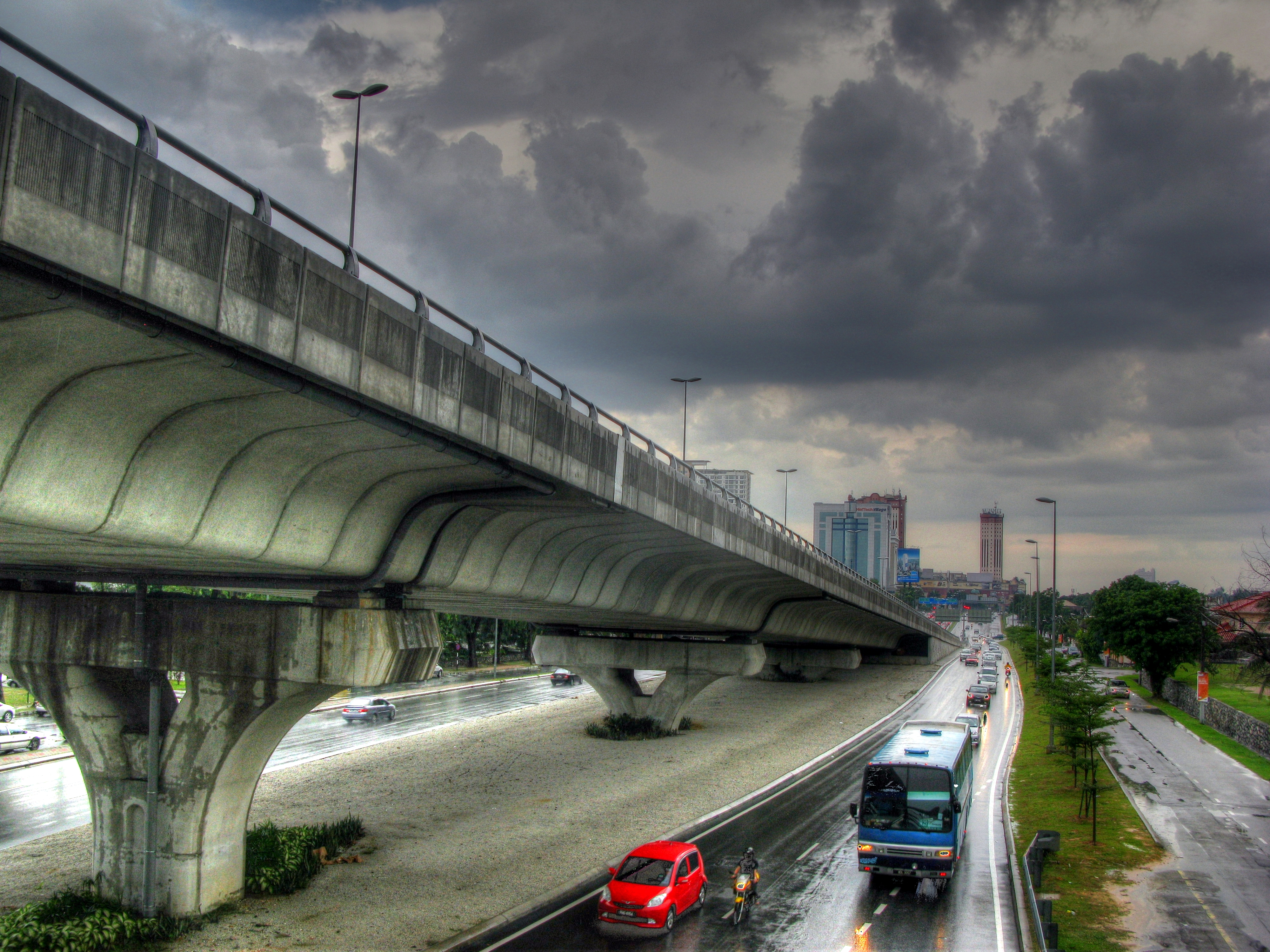 Subang Jaya was the location for BarCampKL 2010. It is also probably one of the least pedestrian-friendly places on Earth. In fact, I suspect that the planners of Subang Jaya did not really believe in the existence of pedestrians, regarding them as mythical creatures like elves and pixies. Refusing to allow their plans to be sullied by such superstitious nonsense, they were careful to ensure that Subang Jaya is entirely free of the blemishes of sidewalks and pedestrian crossings. They almost succeeded, but not quite. Subang Jaya has a smattering of pedestrian footbridges. This picture was taken from one of them. This image was created by tone-mapping an HDR image generated from three separate exposures. The HDR image was generated and tone-mapped using Photomatix Pro.